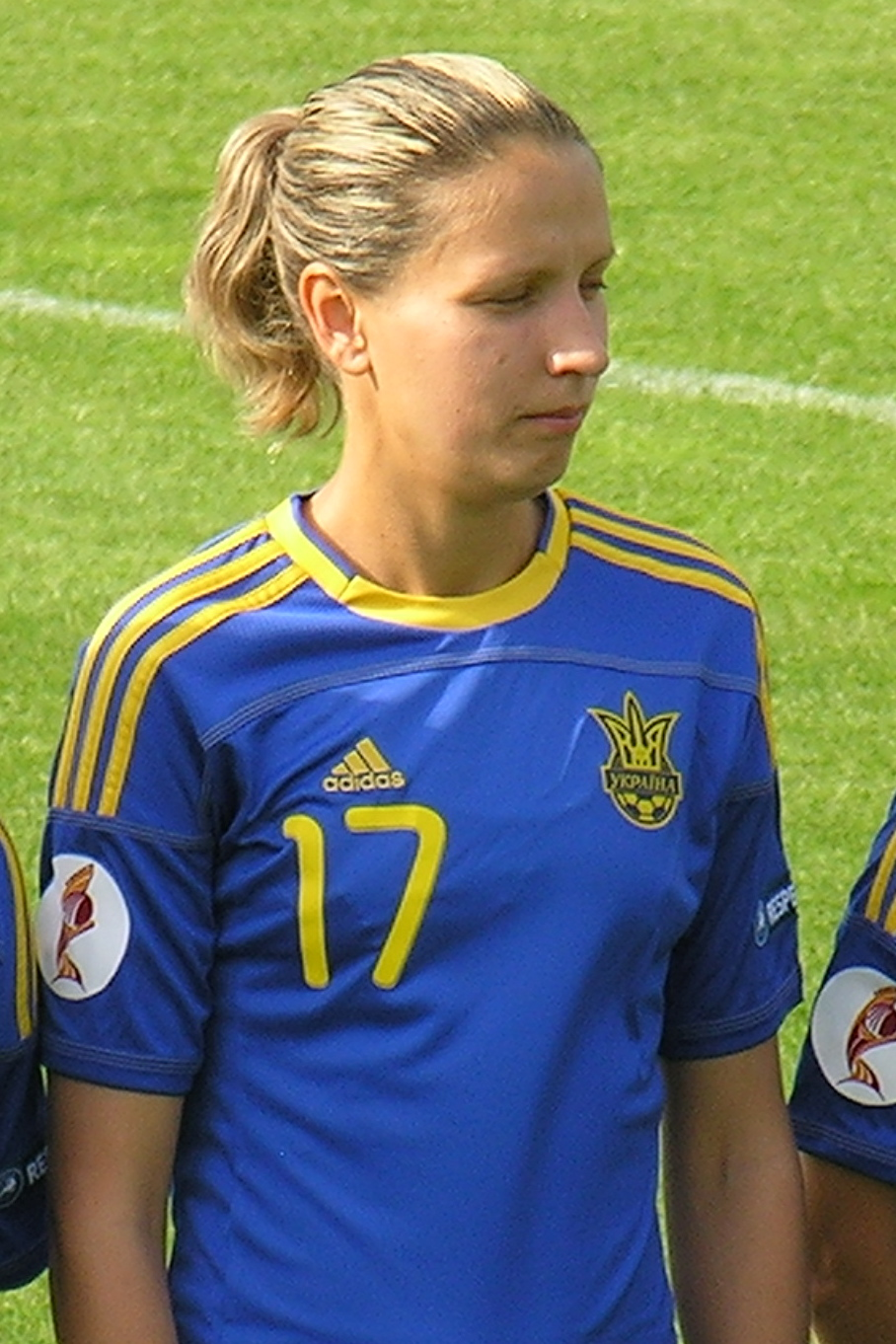 Daryna Apanaschenko Ukrainian international football player Event: Hungary-Ukraine 0-4 in Telki